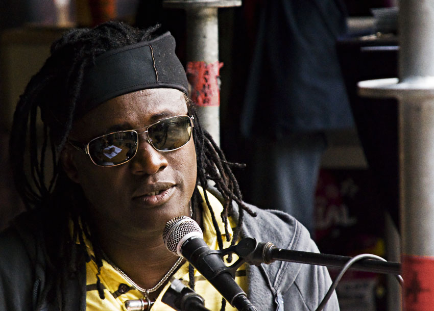 Singer/guitarist Habib Koité during an interview at Festival Mundial, in Tilburg (The Netherlands).